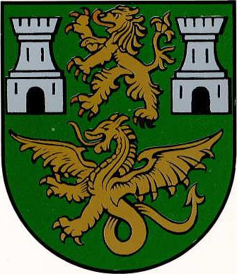 Coat of arms of the family Serpa